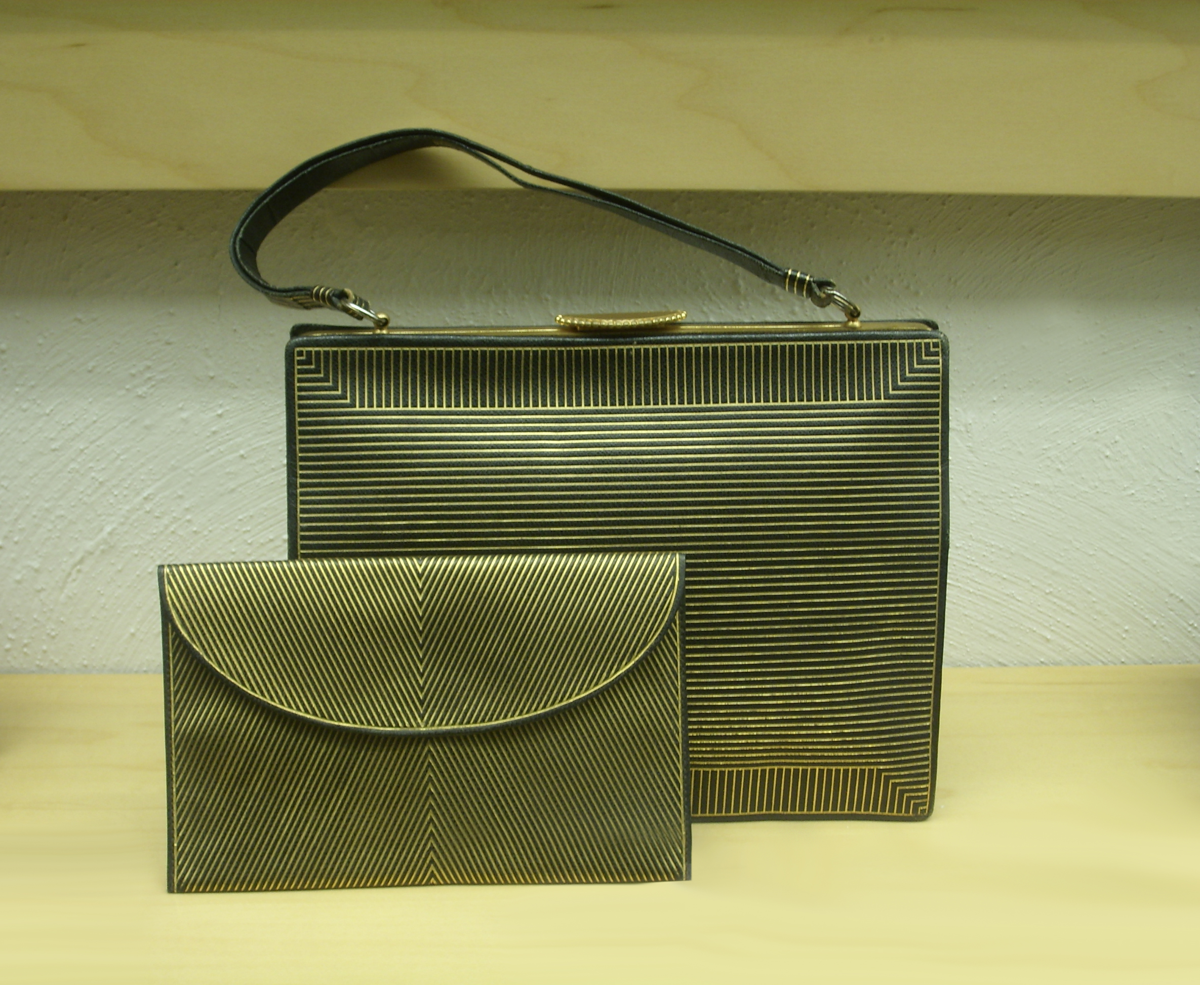 Handbags of the company "Wiener Werkstätte"